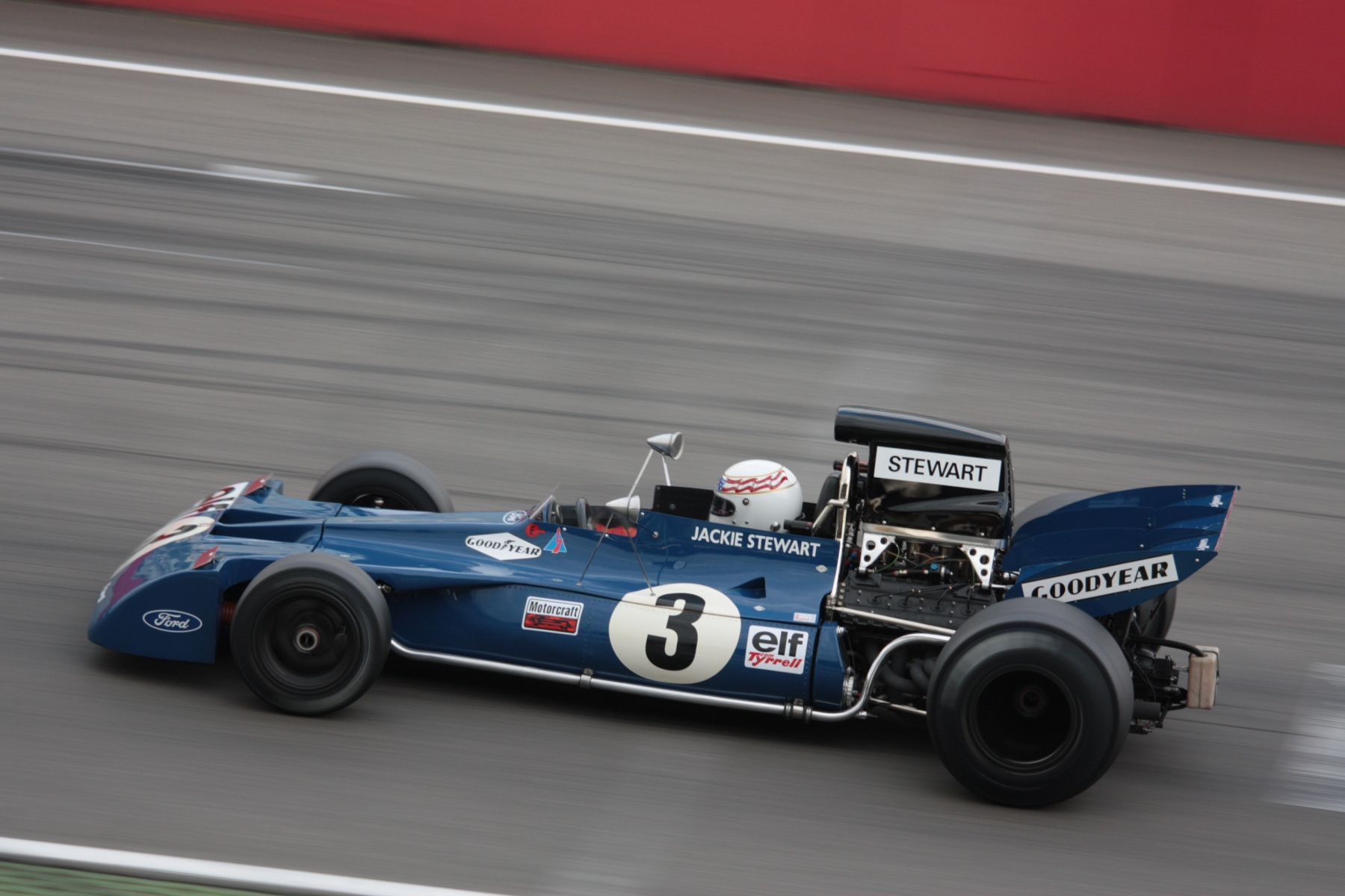 John Delane driving a Tyrrell 002 at the Hockenheim Historic FIA Historic Formula One second Qualifikation in 2011.